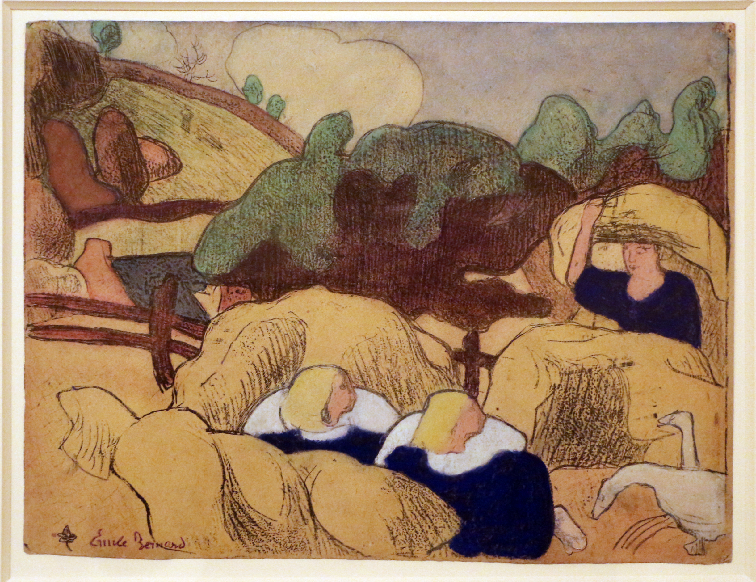 Prints and drawings in the Indianapolis Museum of Art